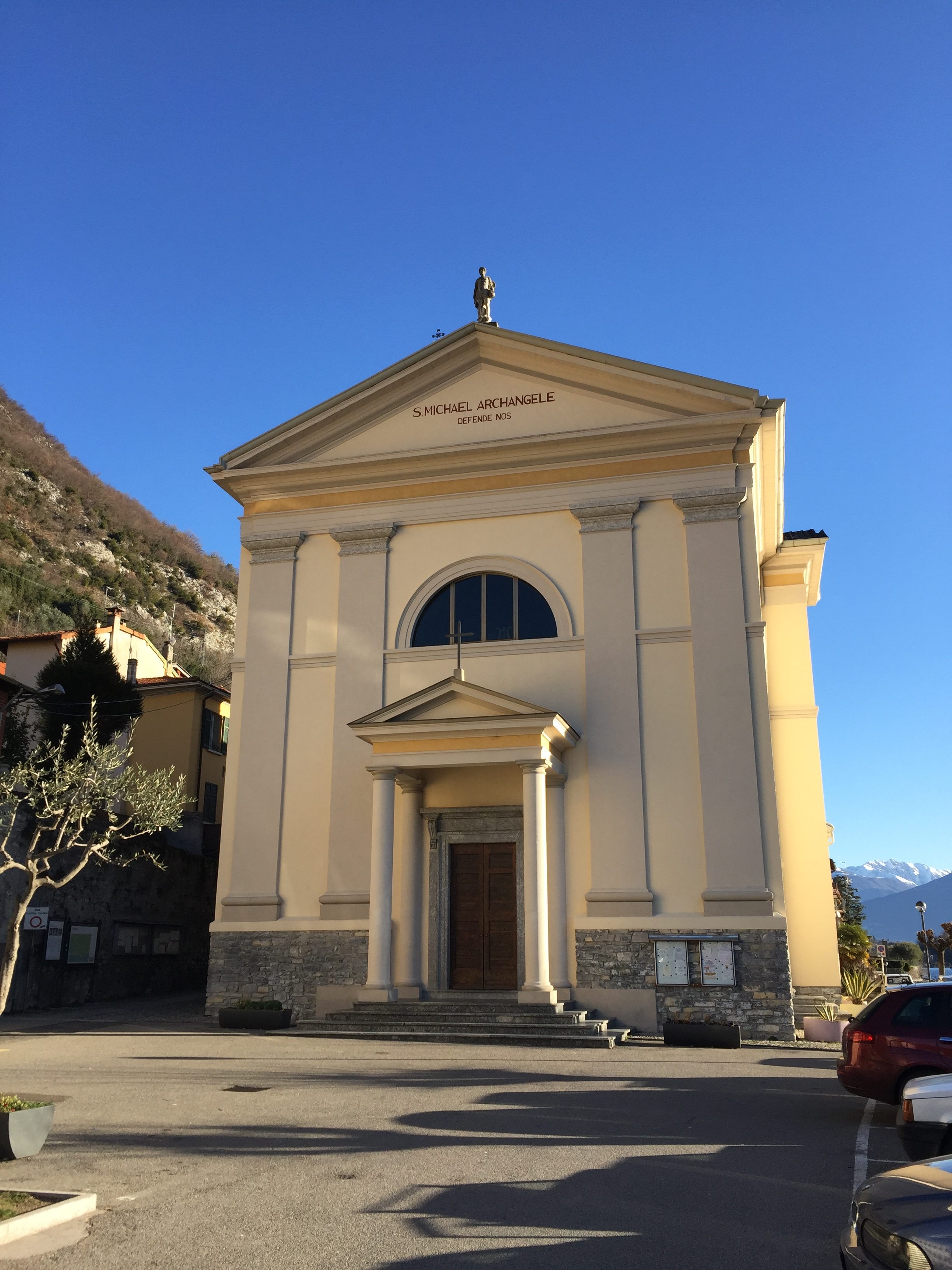 Facade of Church of San Michele Arcangelo, Colonno (CO), Italy